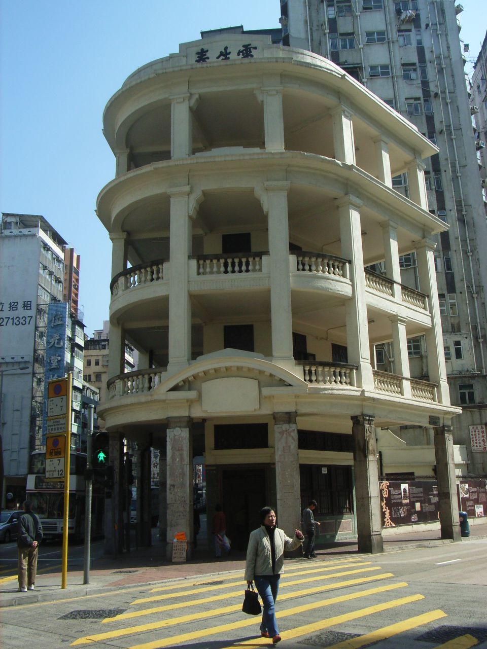 雷生春 位於zh:香港九龍旺角zh:荔枝角道及zh:塘尾道交界 Lui Seng Chun (雷生春) is a historical 4-story building on 119 Lai Chi Kok Road, Hong Kong. Photo by User:OLAMB.